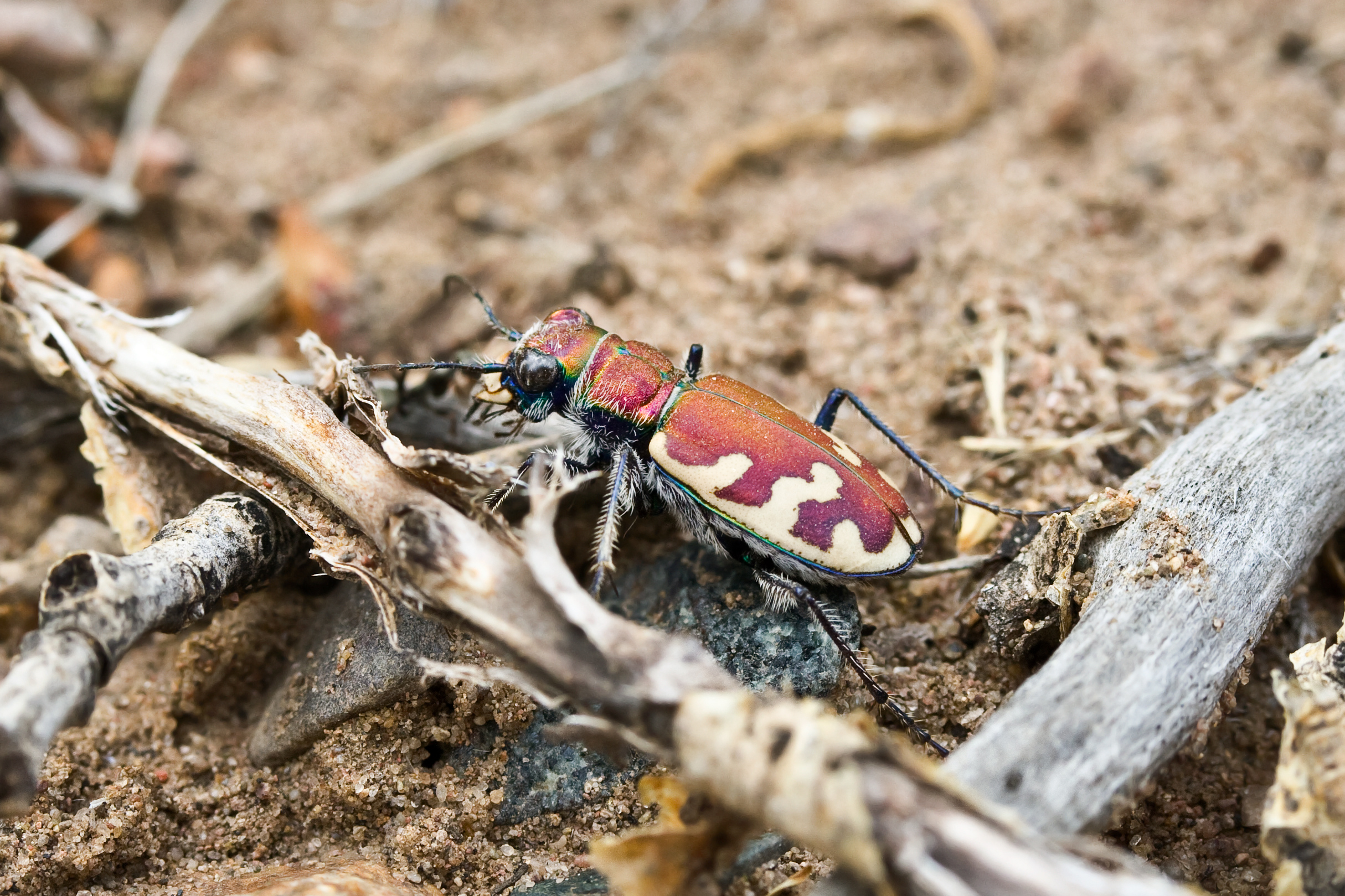 Tiger beetle, Cicindela formosa